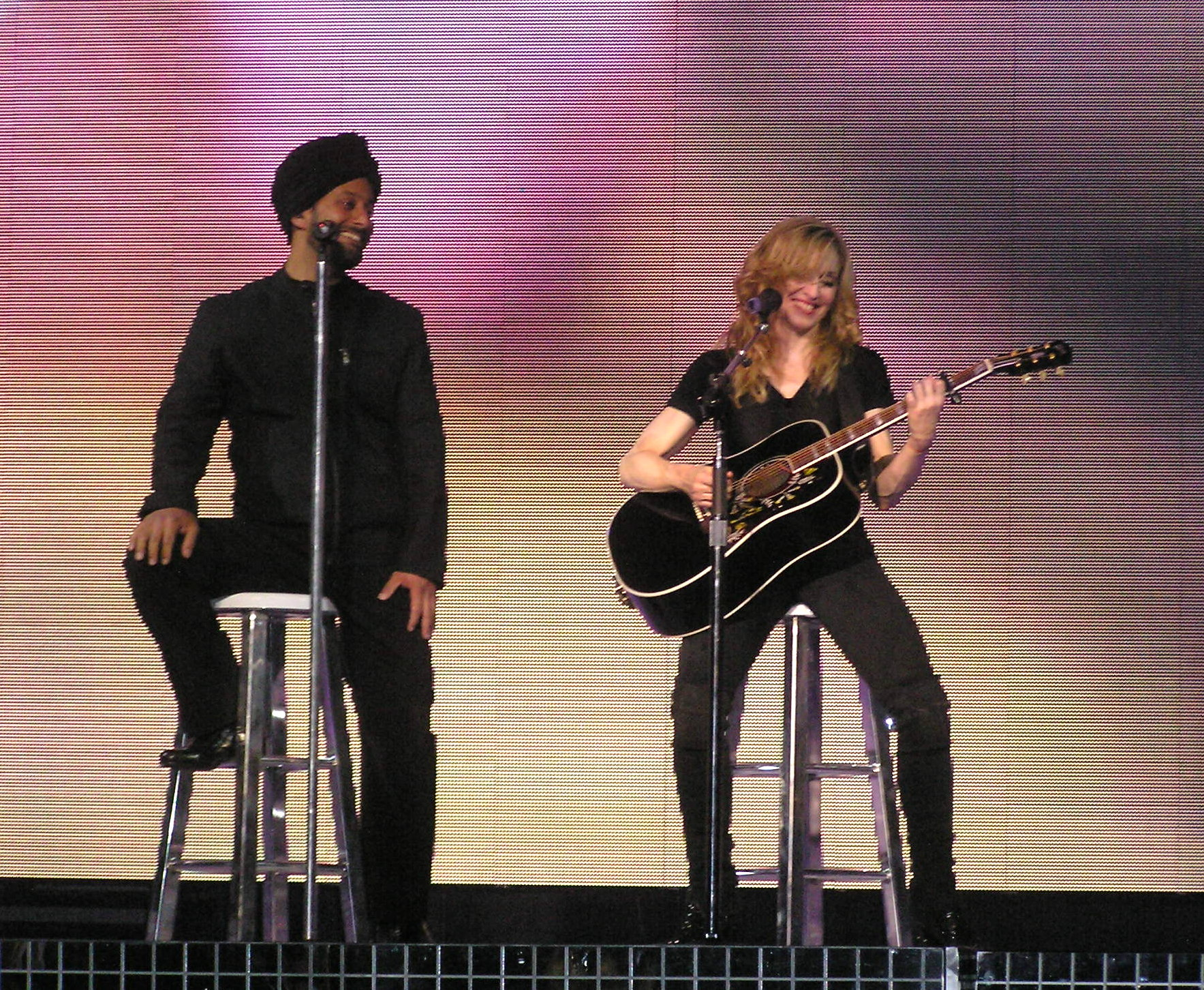 Madonna concert in Fresno